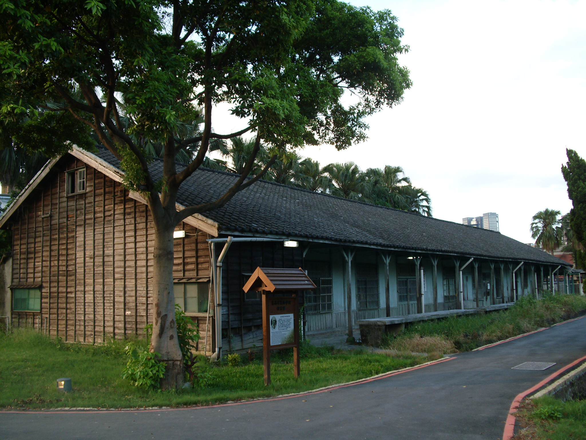 Workshop of Advanced Academy of Agronomy and Forestry ---Incubator of Taiwan Ponlai Rice